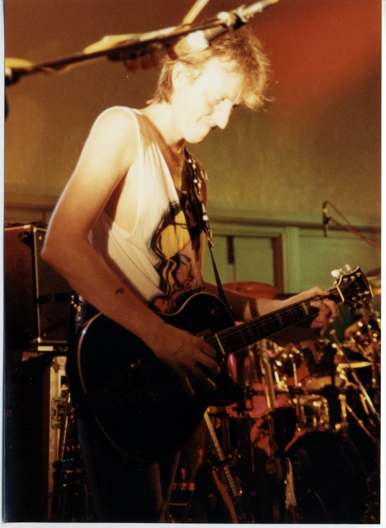 Dunfermline Pavillion August 31 1991 (I think)